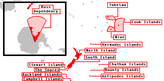 Realm of New Zealand. For context in full world map, see Image:NZ Realm of New Zealand.png.